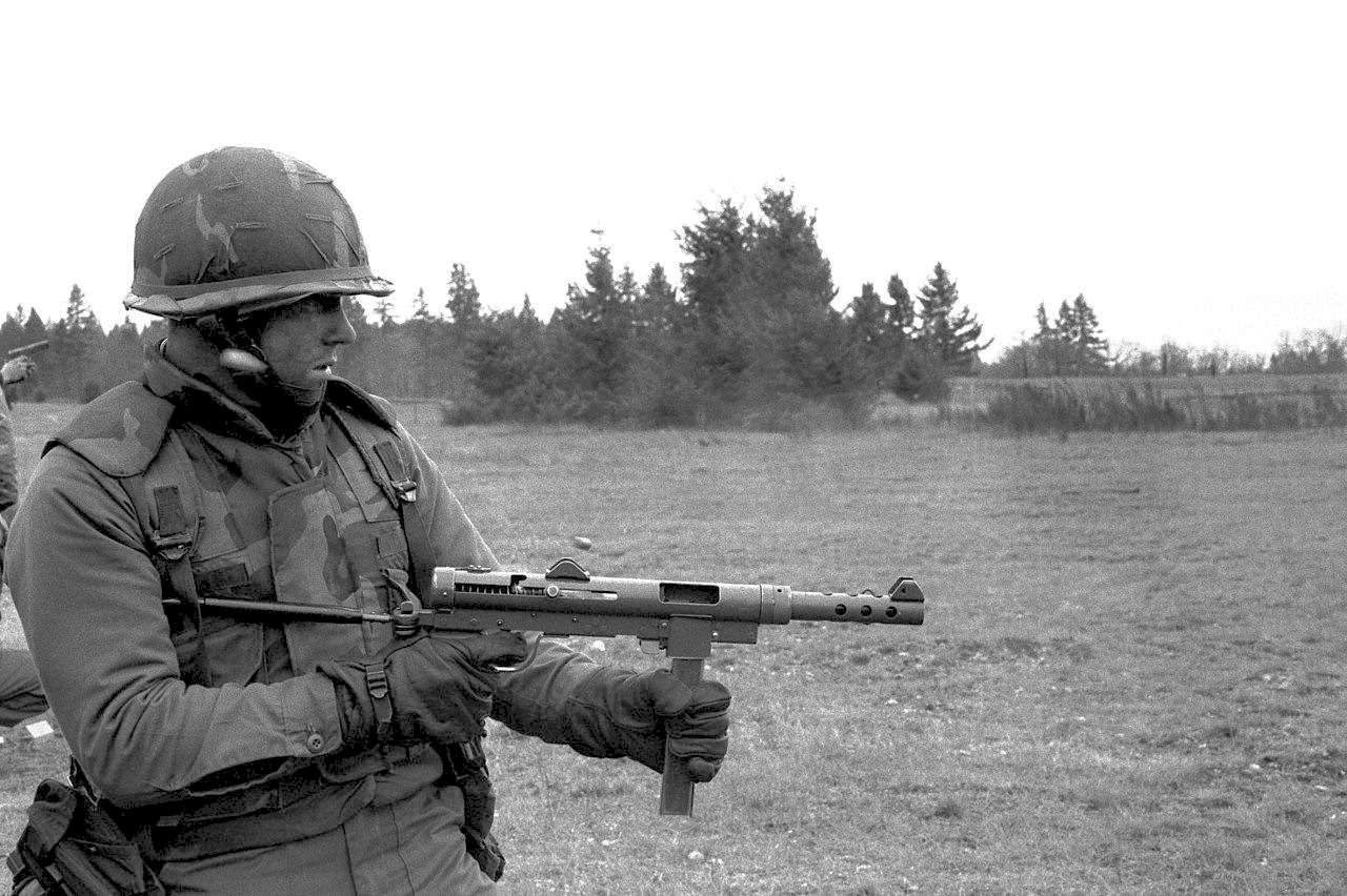 US soldier armed with Carl Gustav m/45 SMG